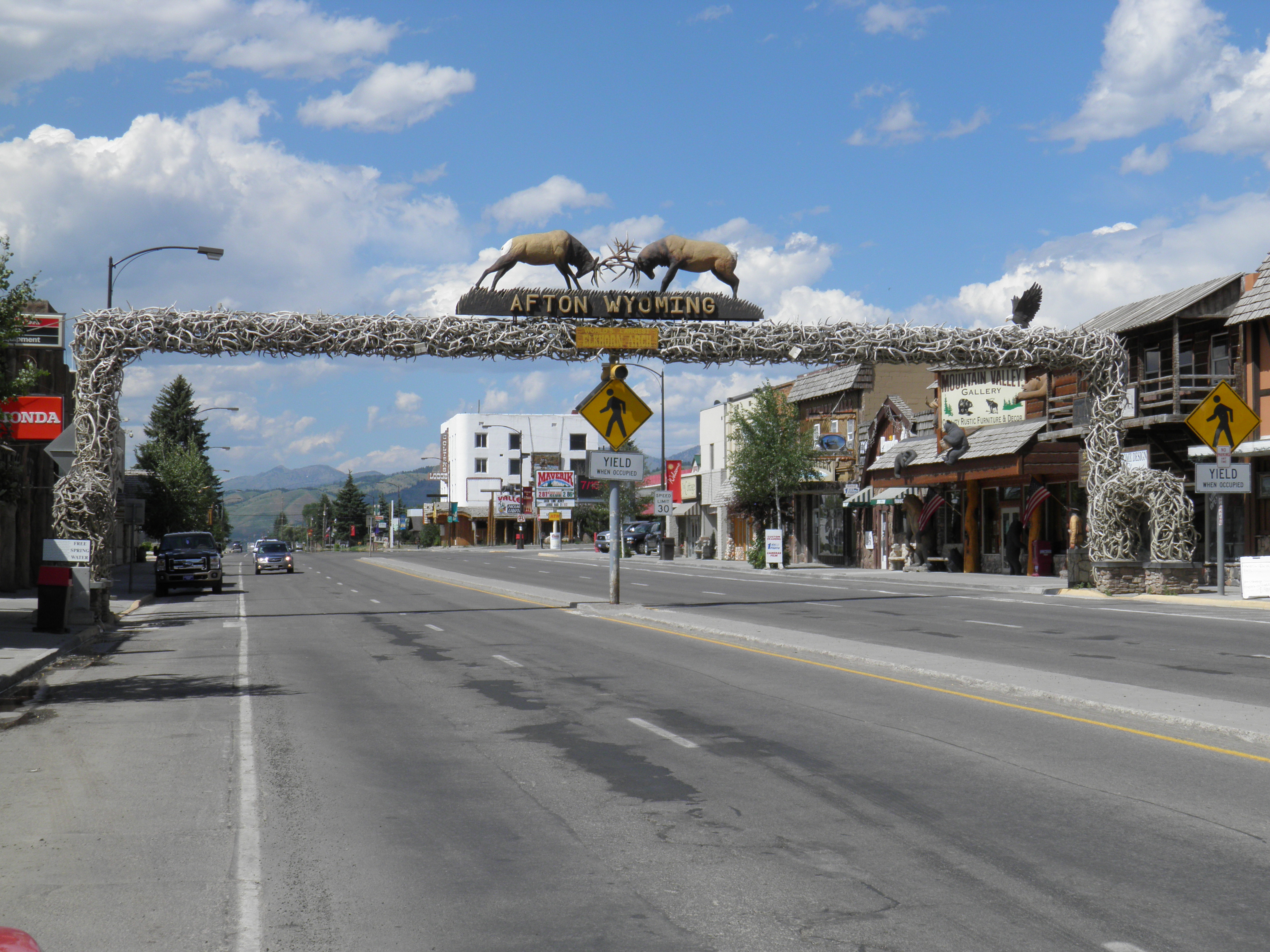 World largest arch made from elk antlers. Afton, Wyoming.